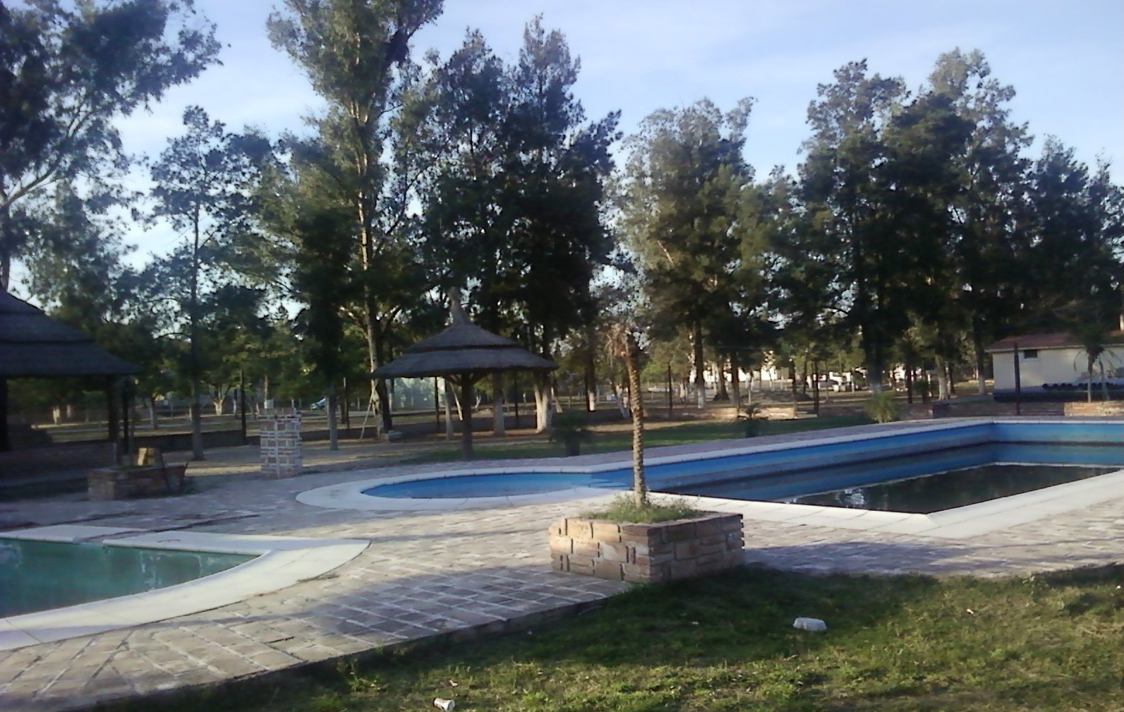 Piletas públicas